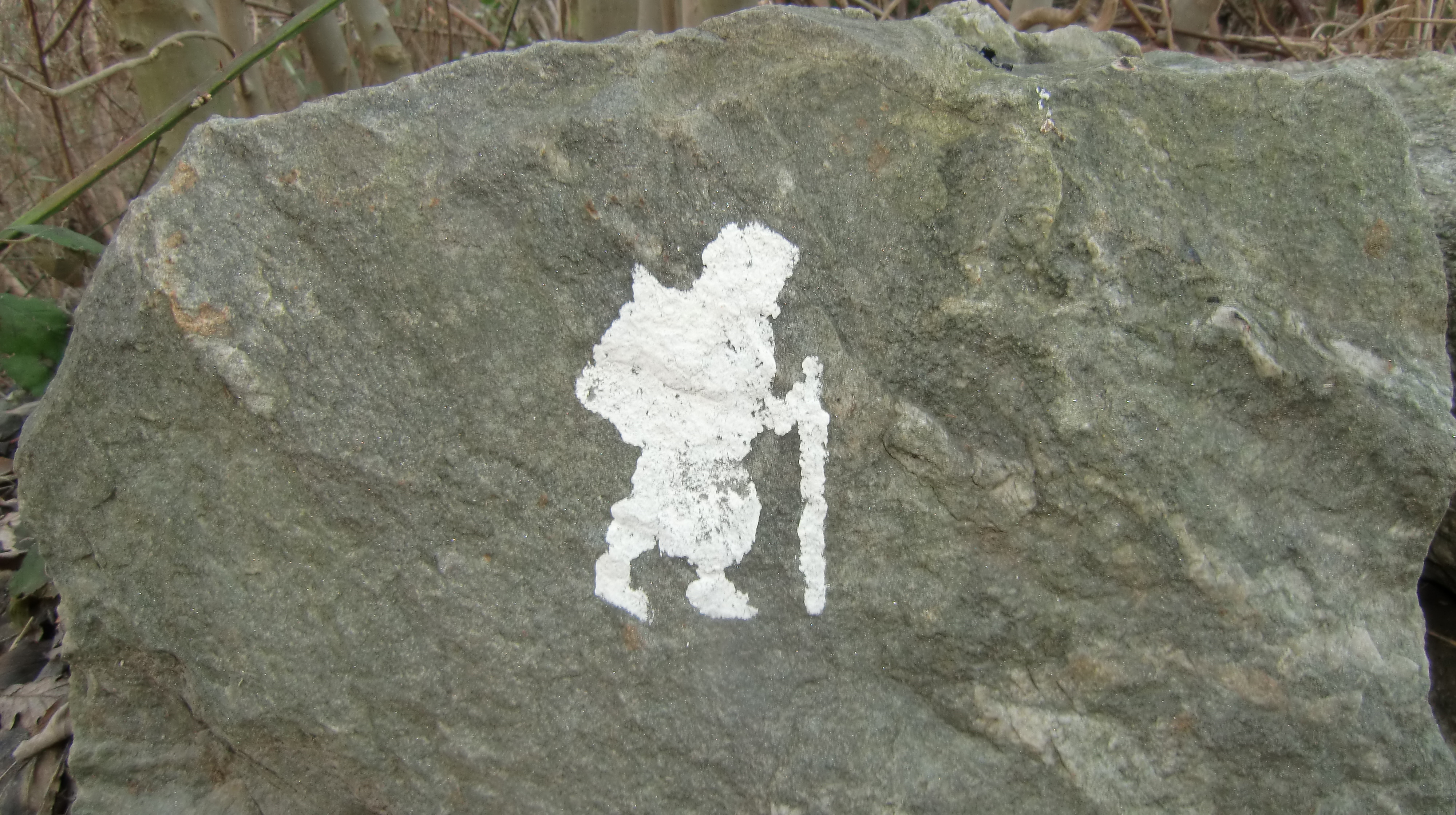 Via Francigena, a sign showing the walking path's way near Ivrea (Italy)